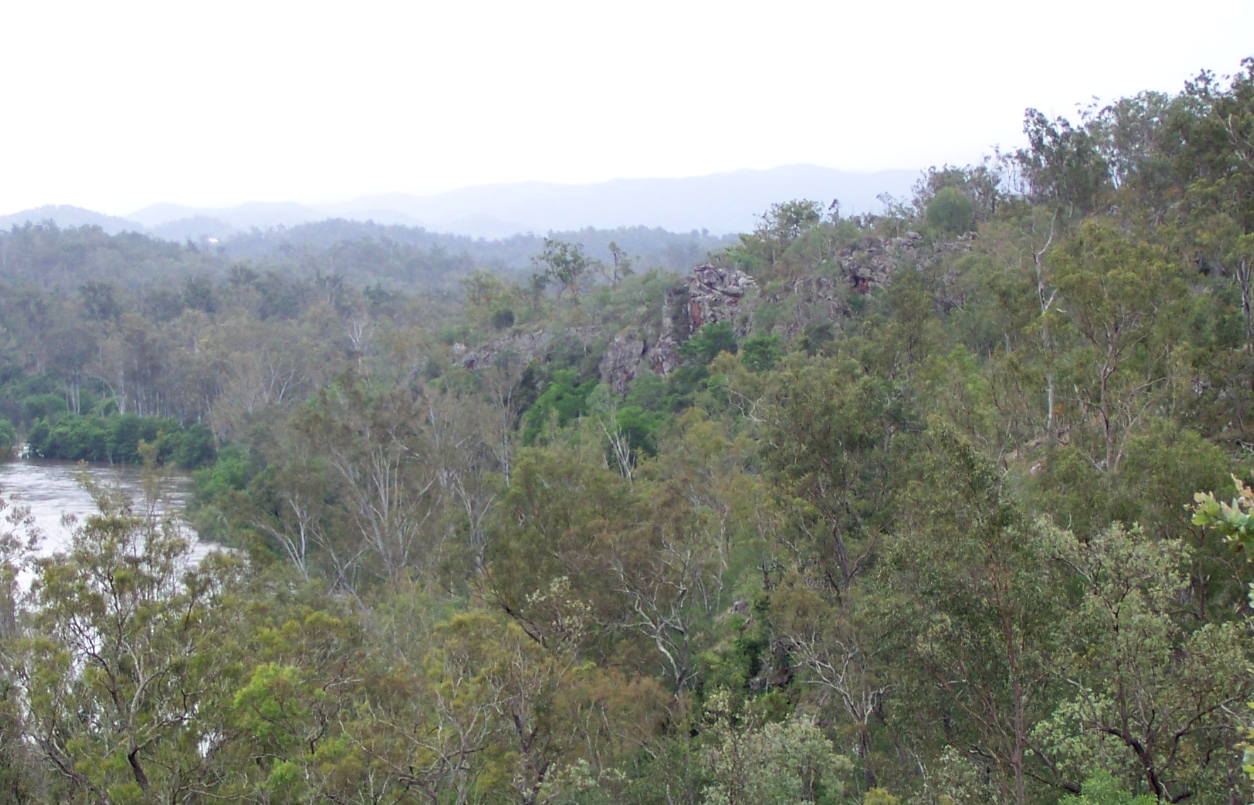 The Blackwall